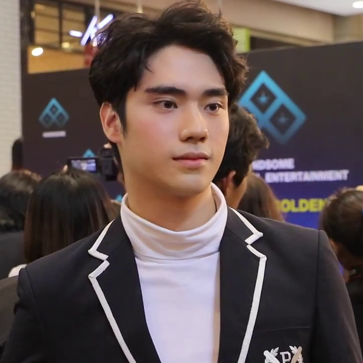 Tanapol Jarujittranon "Tee" at Event Handsome Golden Carpet